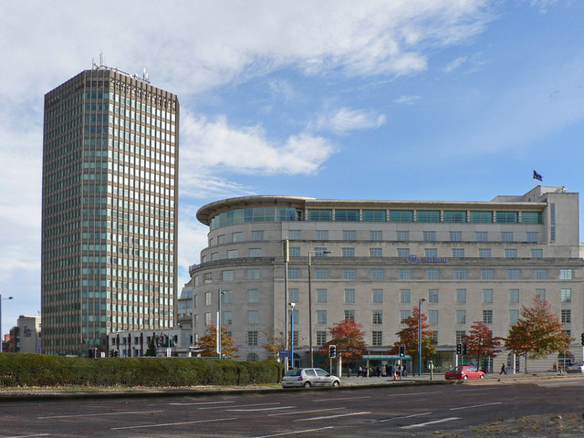 The Hilton Hotel and adjacent tower block - Cardiff